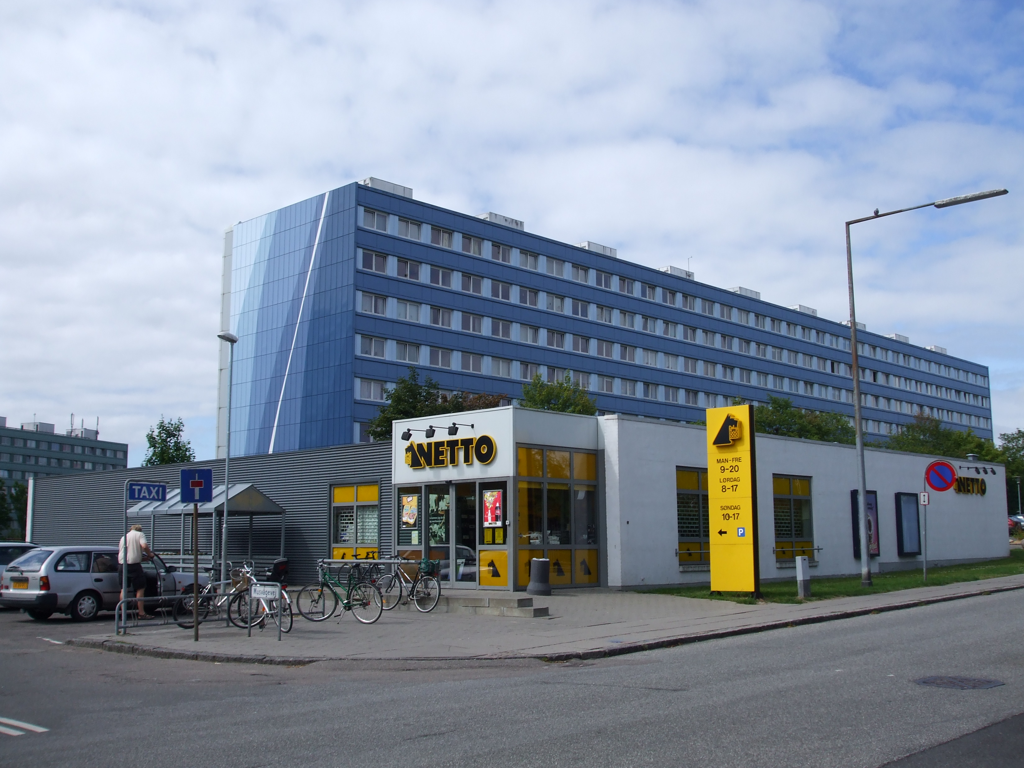 Netto shop in Frydenlund in Århus V, Denmark